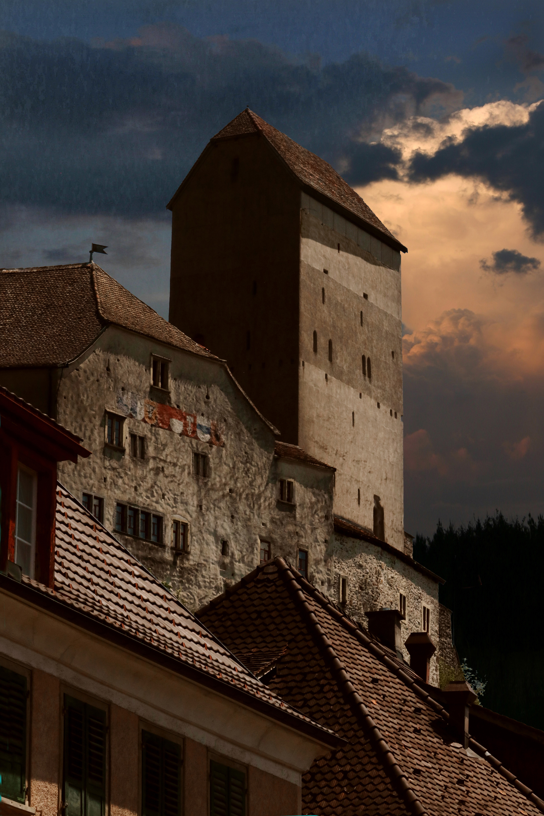 Schloss Sargans